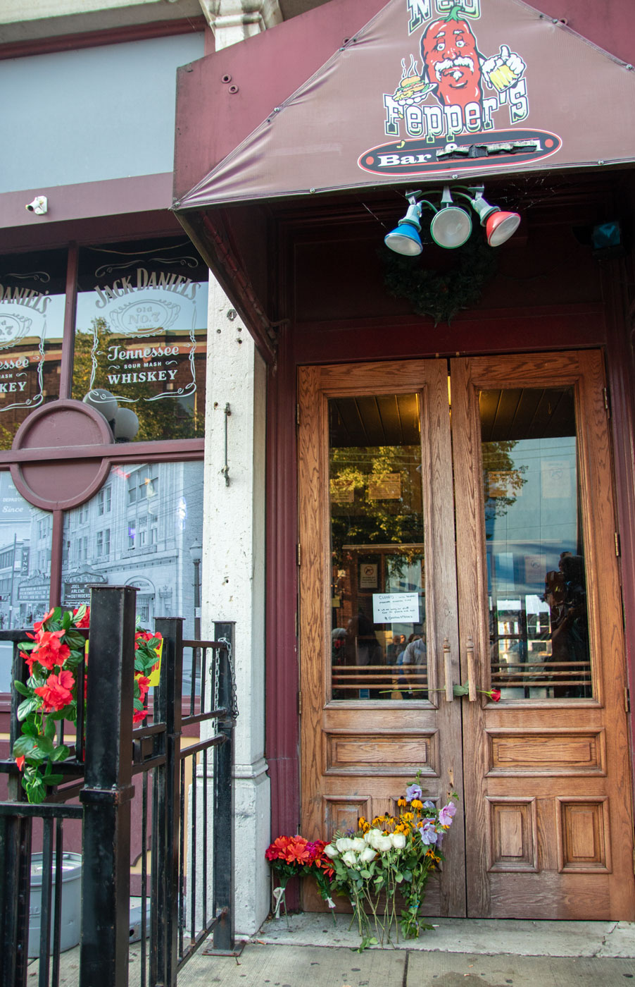 Ned Peppers Bar in the Oregon District in Dayton, Ohio, the day after the August 2019 shooting.